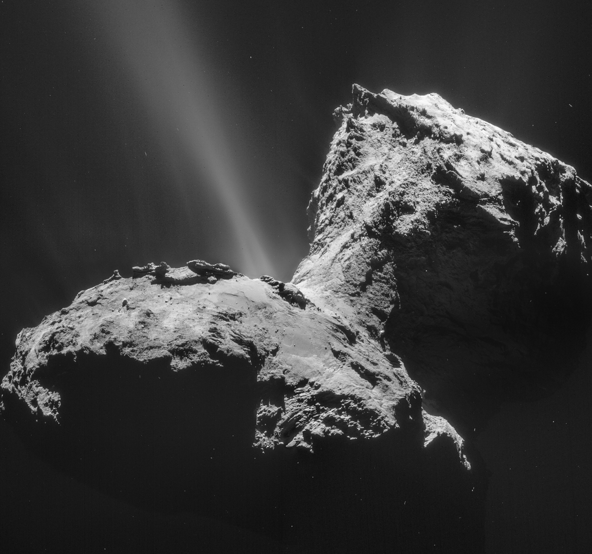 This four-image mosaic comprises images taken from a distance of 28.0 km from the centre of Comet 67P/Churyumov-Gerasimenko on 31 January. The image resolution is 2.4 m/pixel and the individual 1024 x 1024 frames measure 2.4 km across. The mosaic measures 4.6 x 4.3 km. More information and the four individual images making up the montage are available via the blog: Anuket vs. Anubis - CometWatch 31 January.